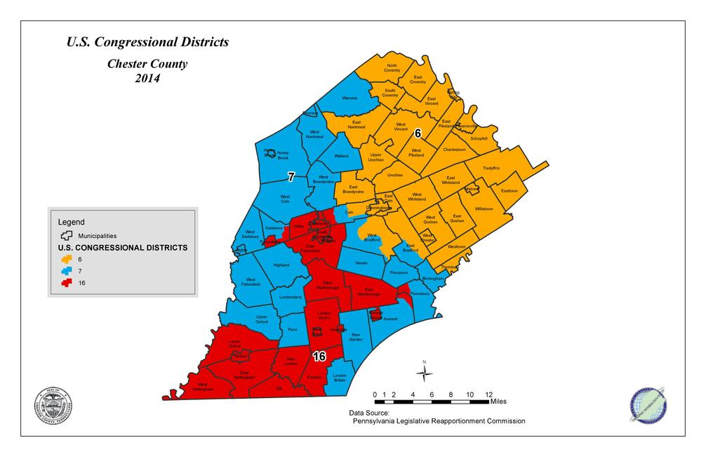 Chester County's congressional districts